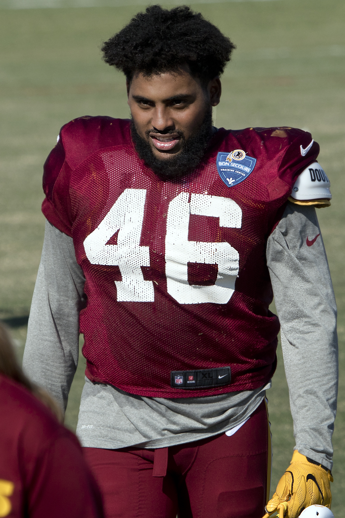 Washington Redskins Richmond Virginia Training Camp - NFL Football